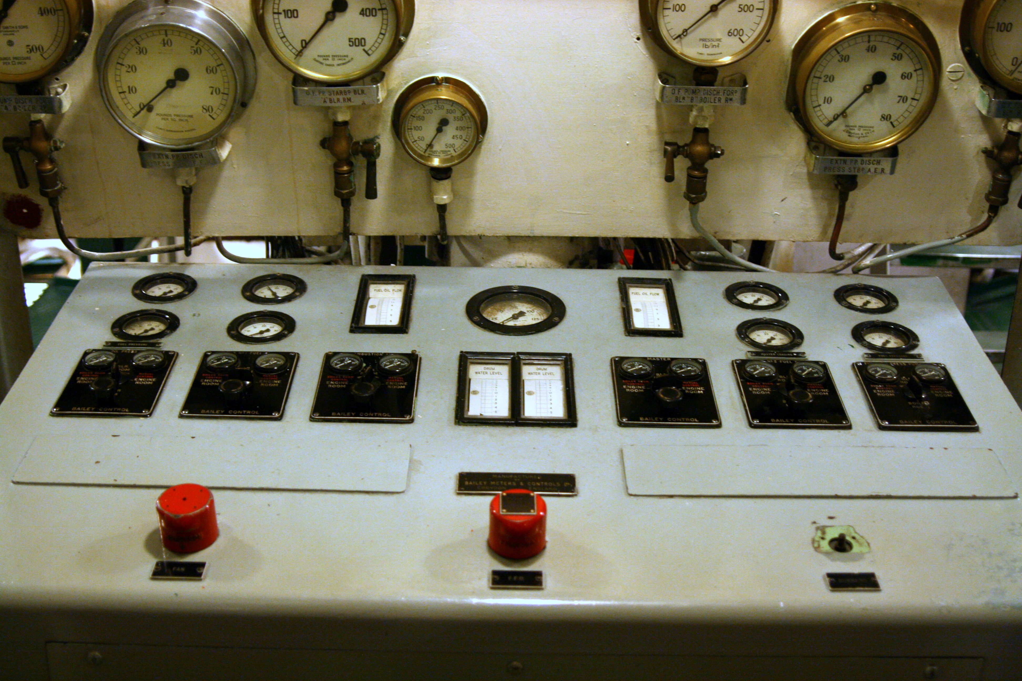 Control console for the forward engines of HMS Belfast